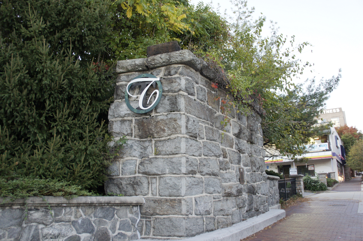 Stone abutments remaining in Towson, Maryland, from the former Maryland and Pennsylvania Railroad bridge over York Road